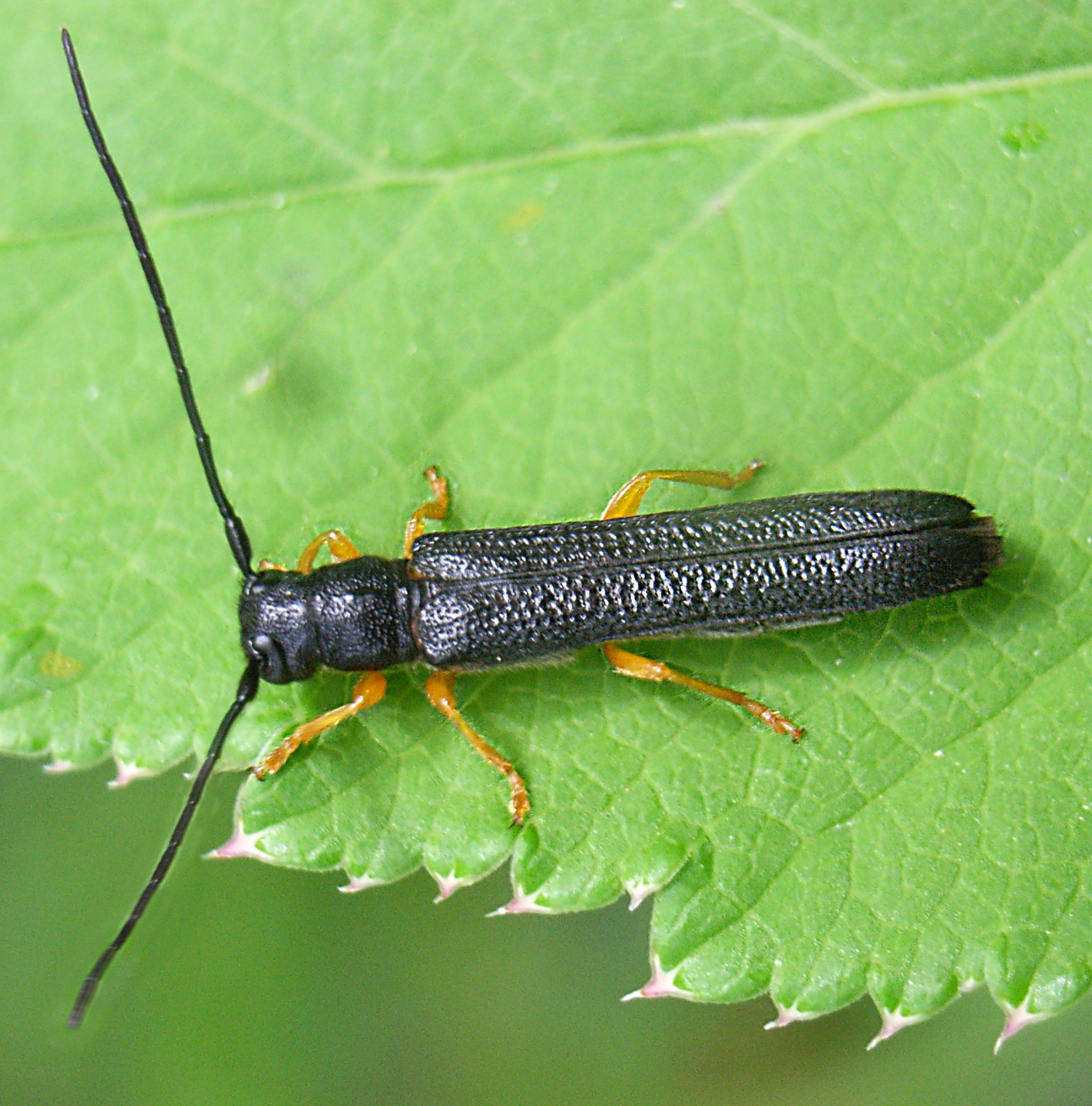 Oberea linearis from France southwest of Millau on Hazelnut at 2011-06-28